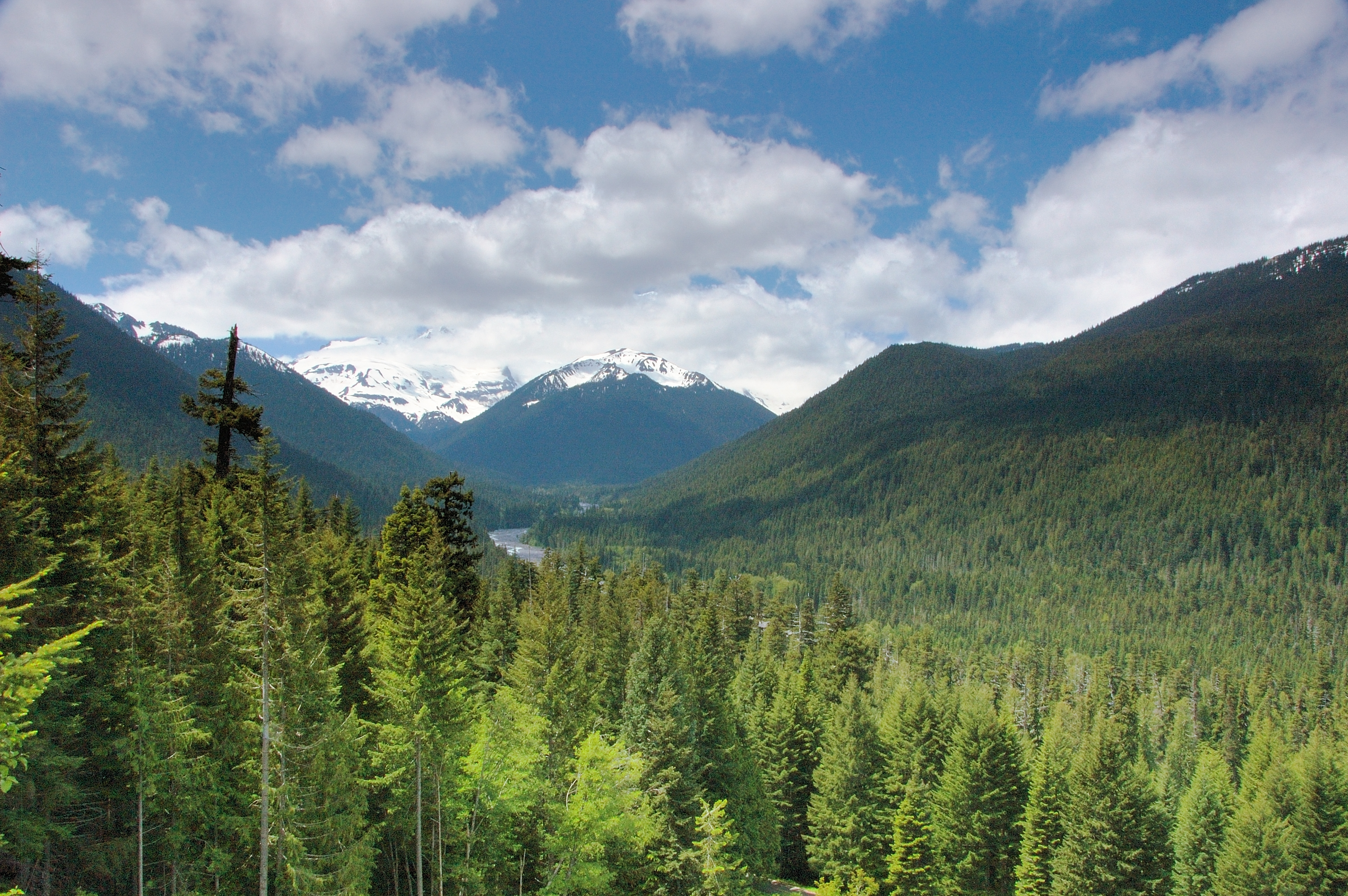 Mount Rainier National Park; view from east up the White River Valley, Frying Pan Glacier (left), Goat Island Mountain (end of valley).